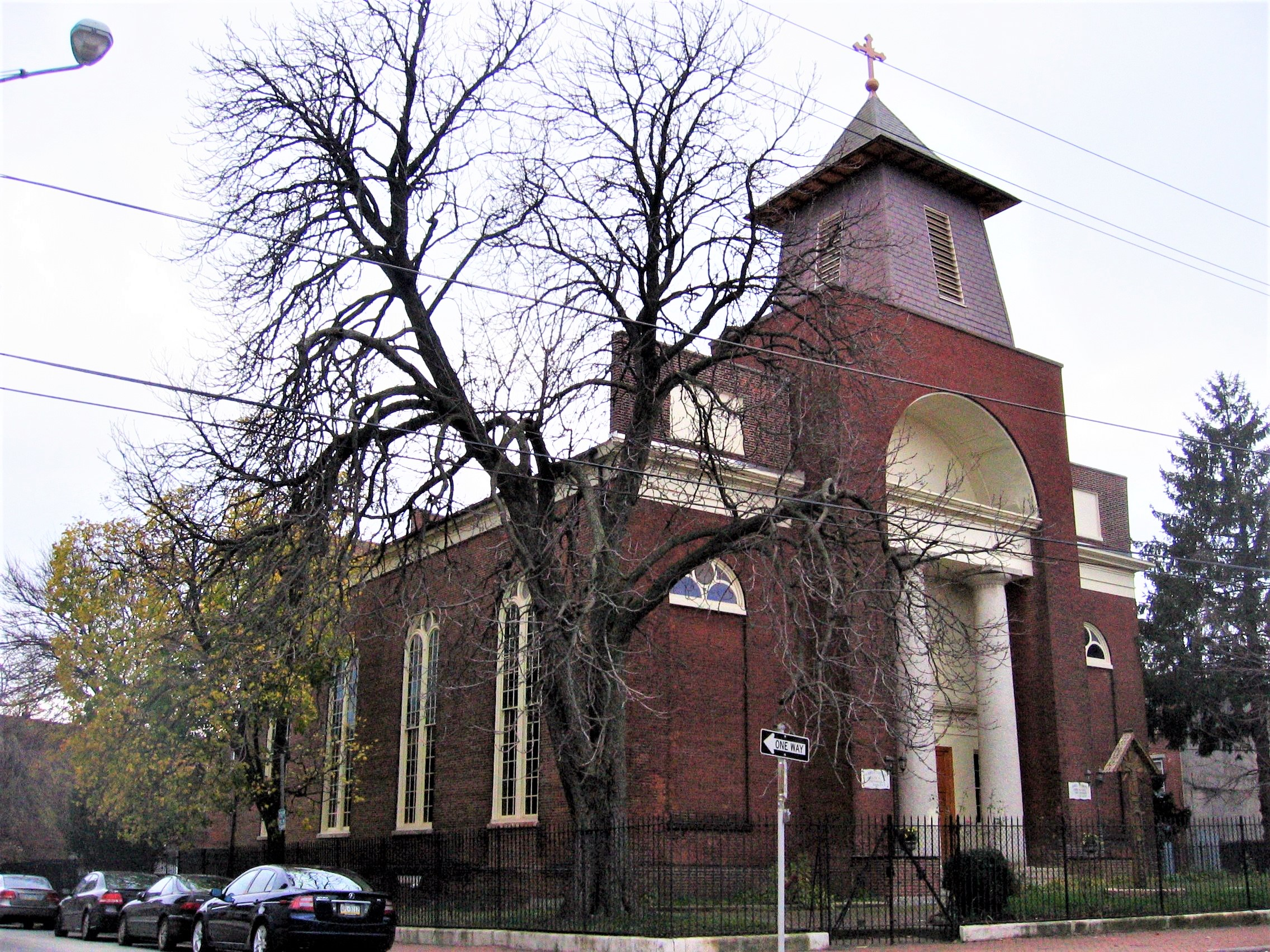 Designed by William Strickland and built in 1816, St. John's Church, also known as the Holy Trinity Romanian Orthodox Church, is located at 220-230 Brown Street in the Northern Liberties neighborhood of Philadelphia.